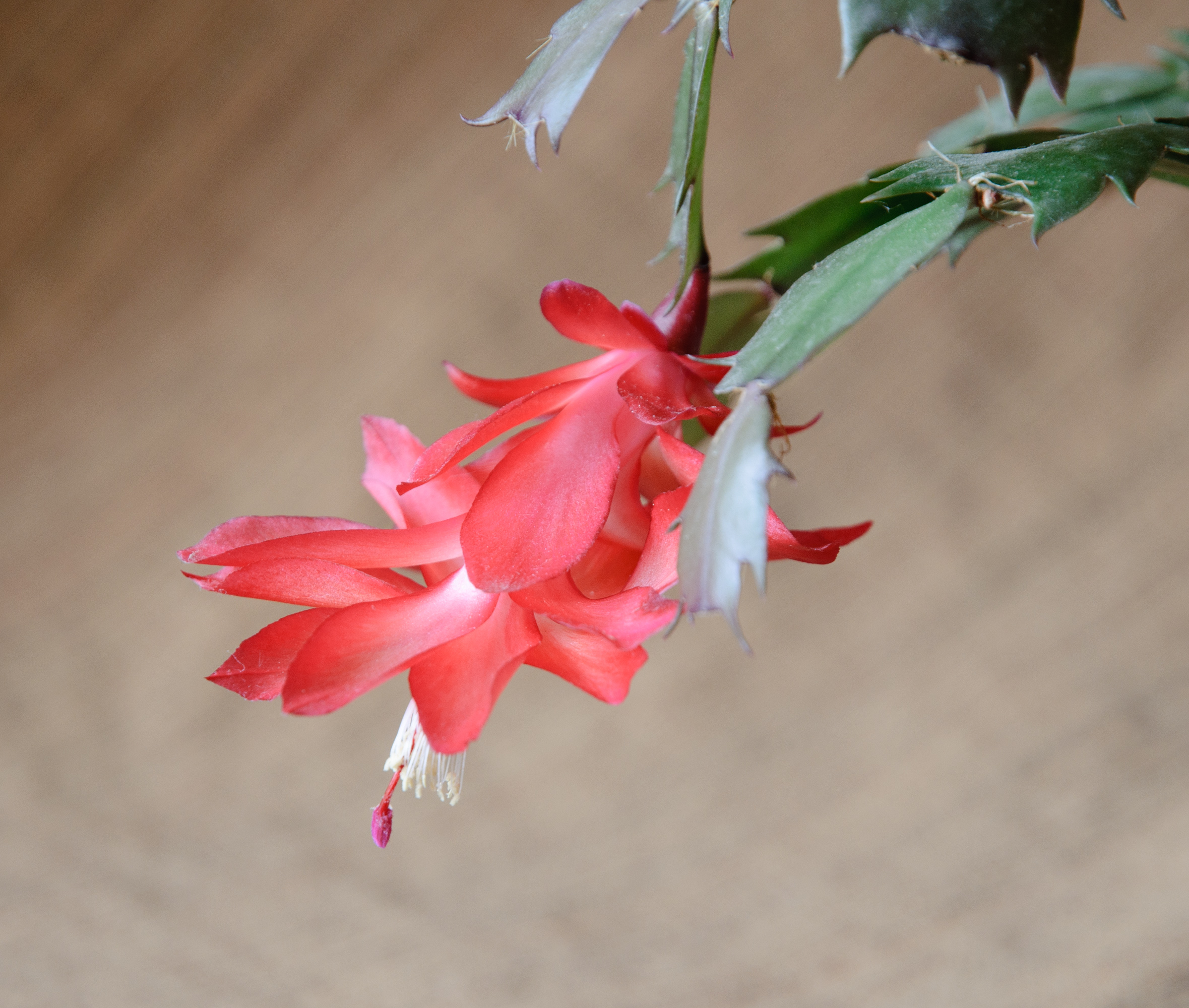 A Christmas Cactus flower (Schlumbergera truncata cultivar).